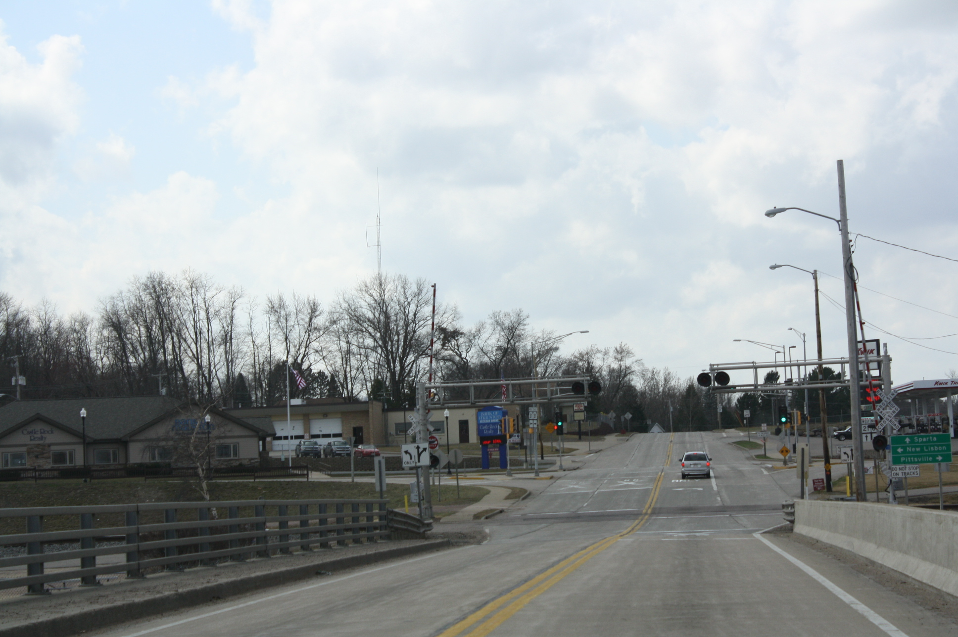 Looking west in Necedah, Wisconsin on Wisconsin Highway 21.